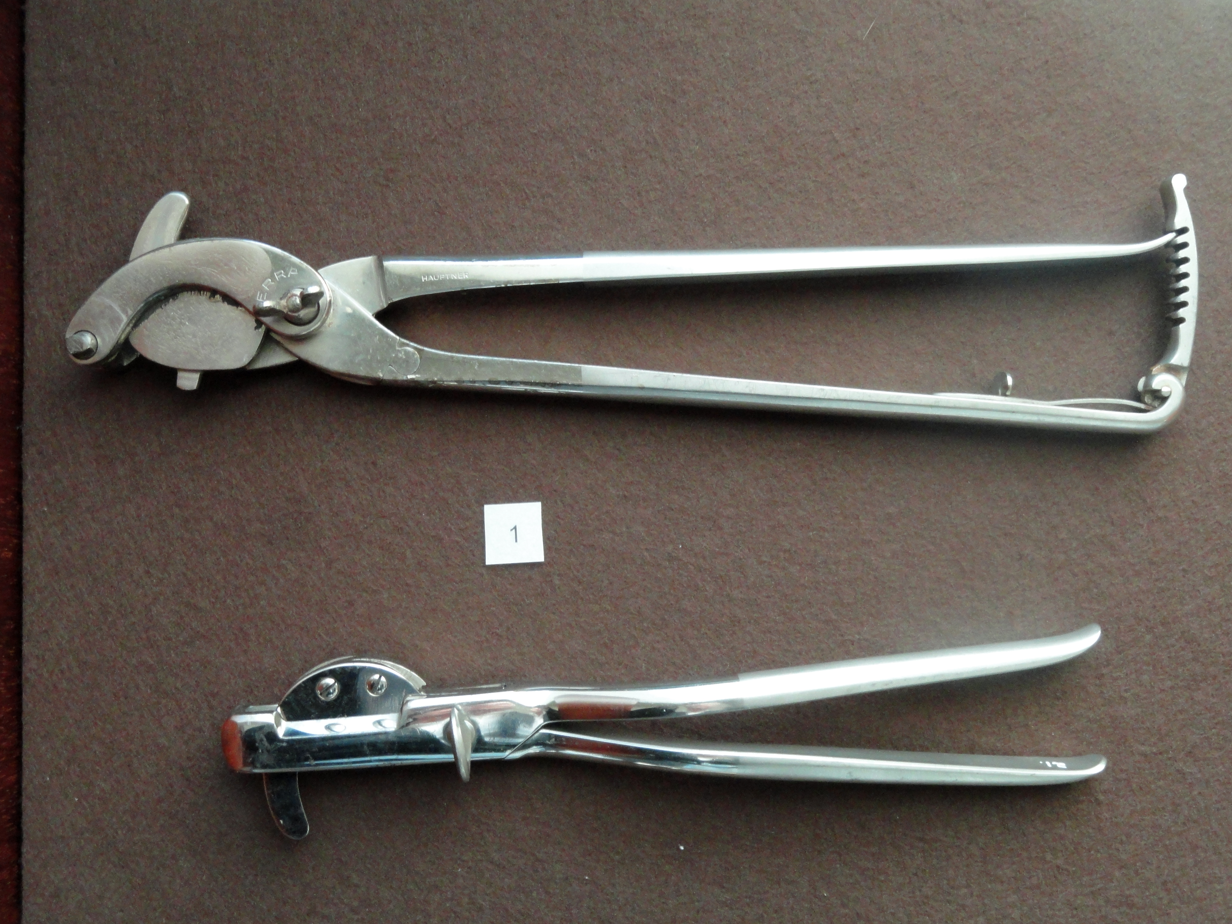 Exhibit in the Arppeanum, Helsinki, Finland.